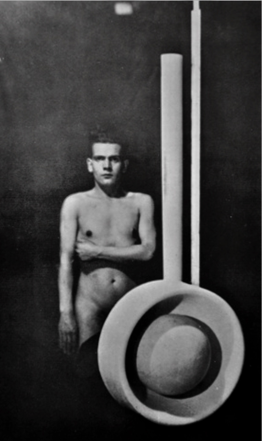 Hannes Maria Flach (1901–1936) was a German photographer, photo artist and photo journalist. This self-portrait with a Leica is a figure photography.